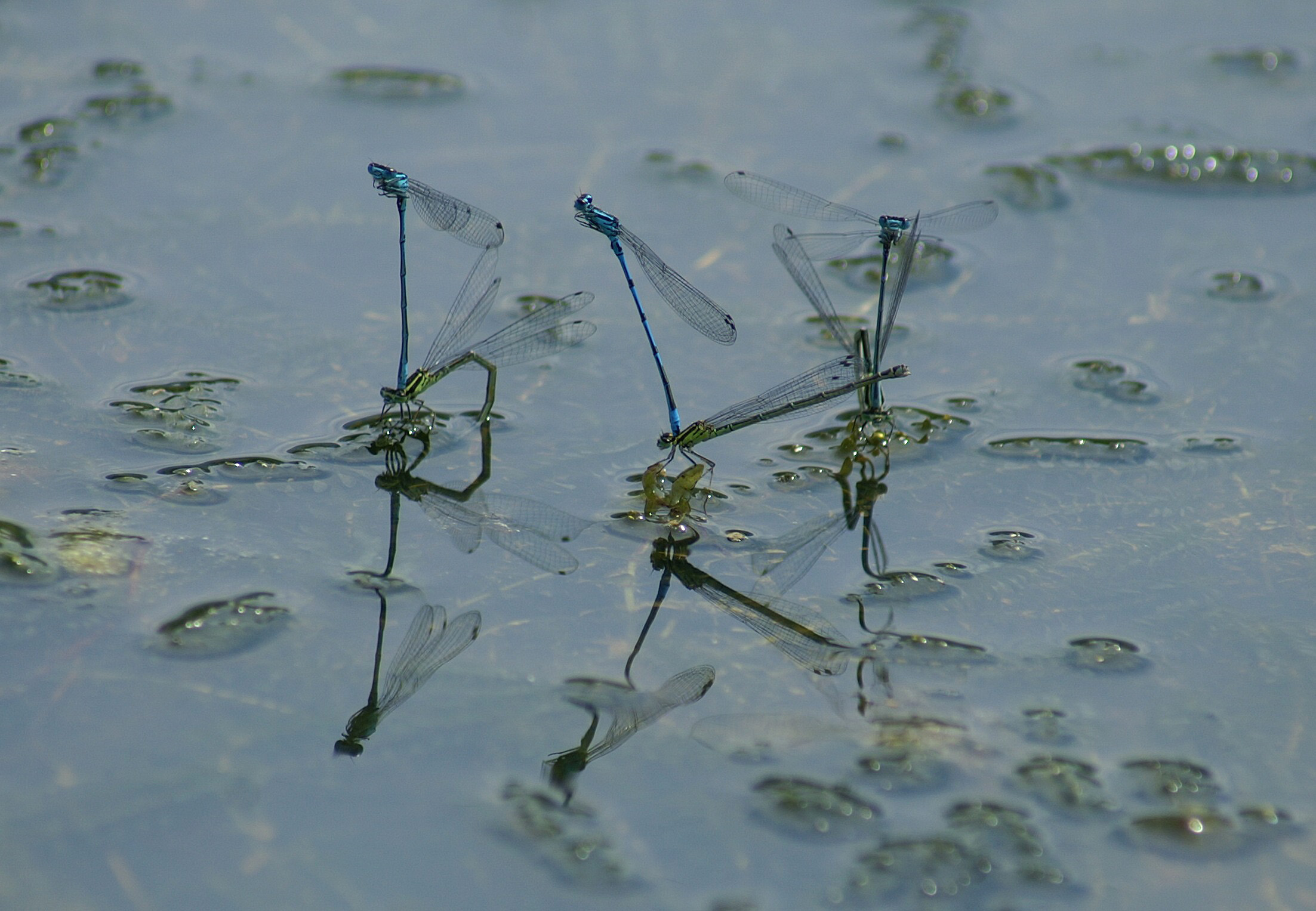 Azure Damselfly laying eggs